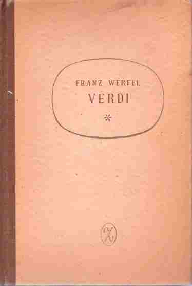 Book cover of Franz Werfel "Verdi" 1924